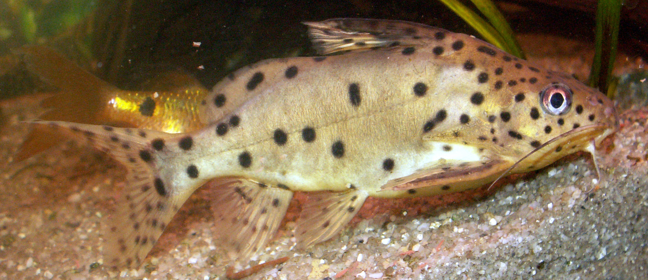 Unidentified Synodontis